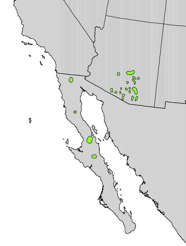 Range map of Vauquelinia californica